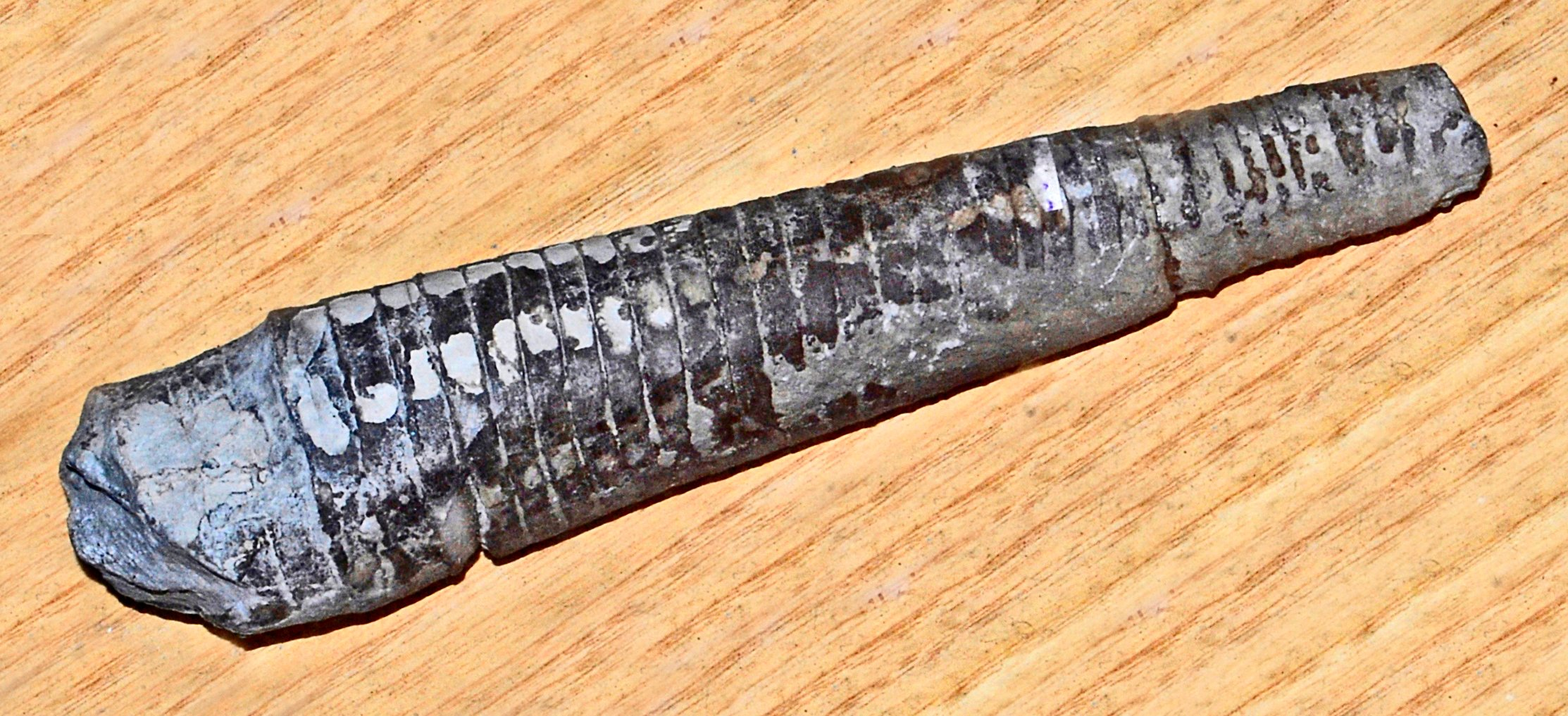 crop of File:Proteoceratidae - Treptoceras duseri.JPG